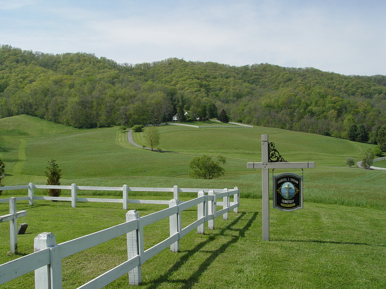 Final resting place of golfer Sam Snead